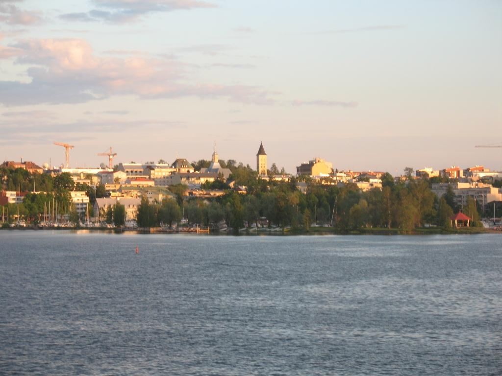 Center of Lappeenranta, view from Saimaa Lake, June night